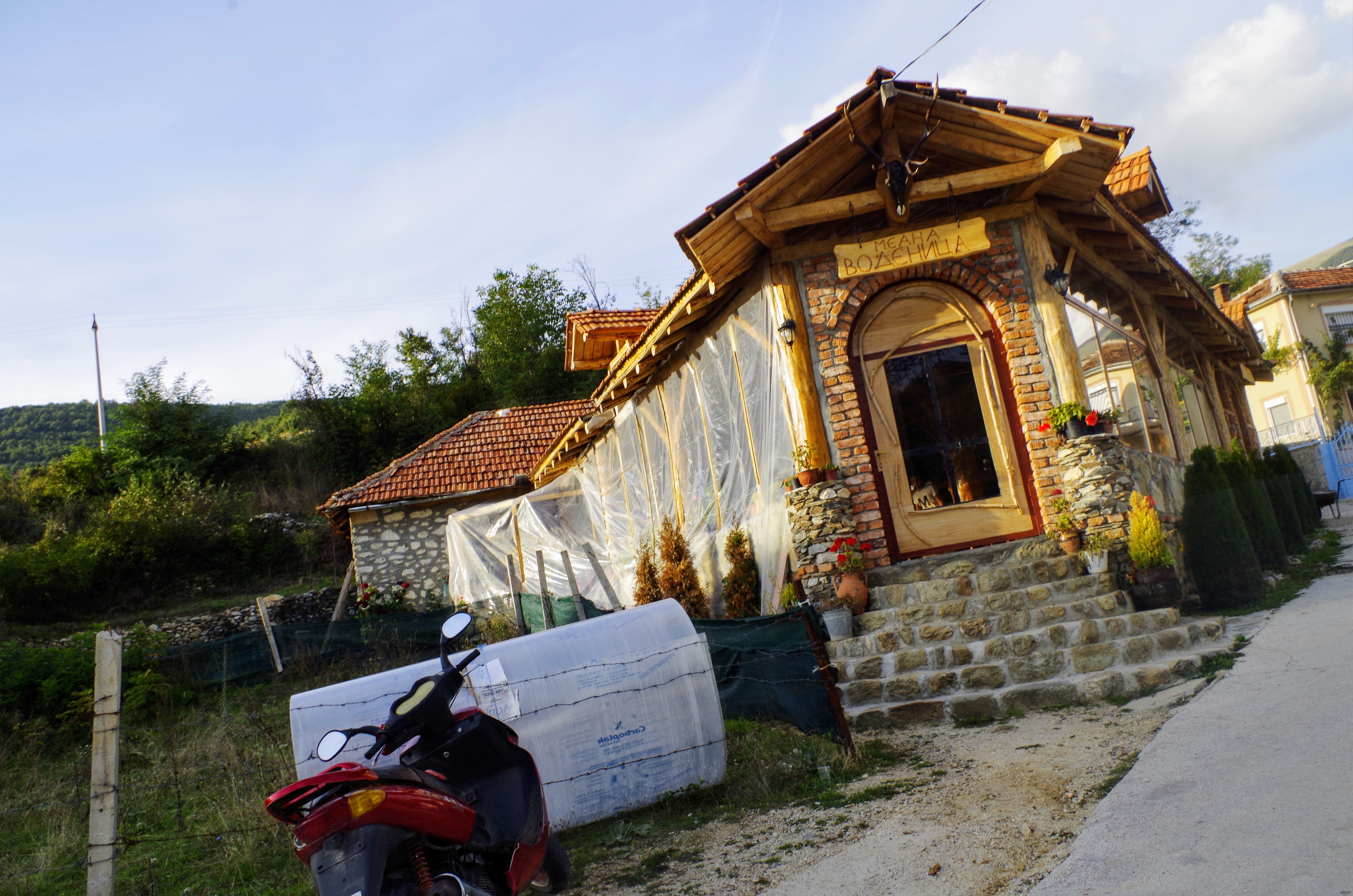 View of the village Arvati